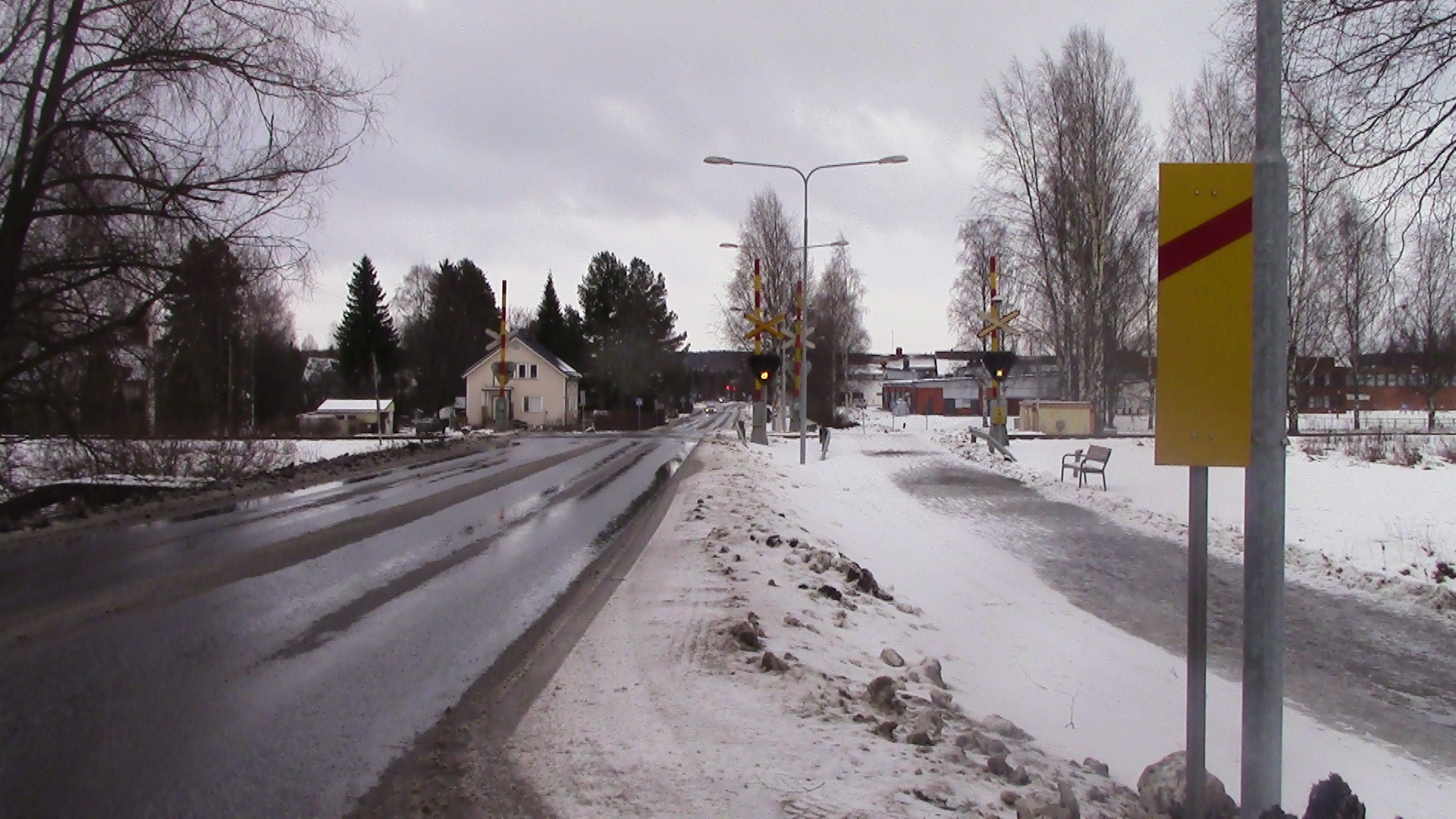 Finnish regional road 689 near Paulaharju level crossing in Kurikka. The road runs from Kurikka to Jurva.